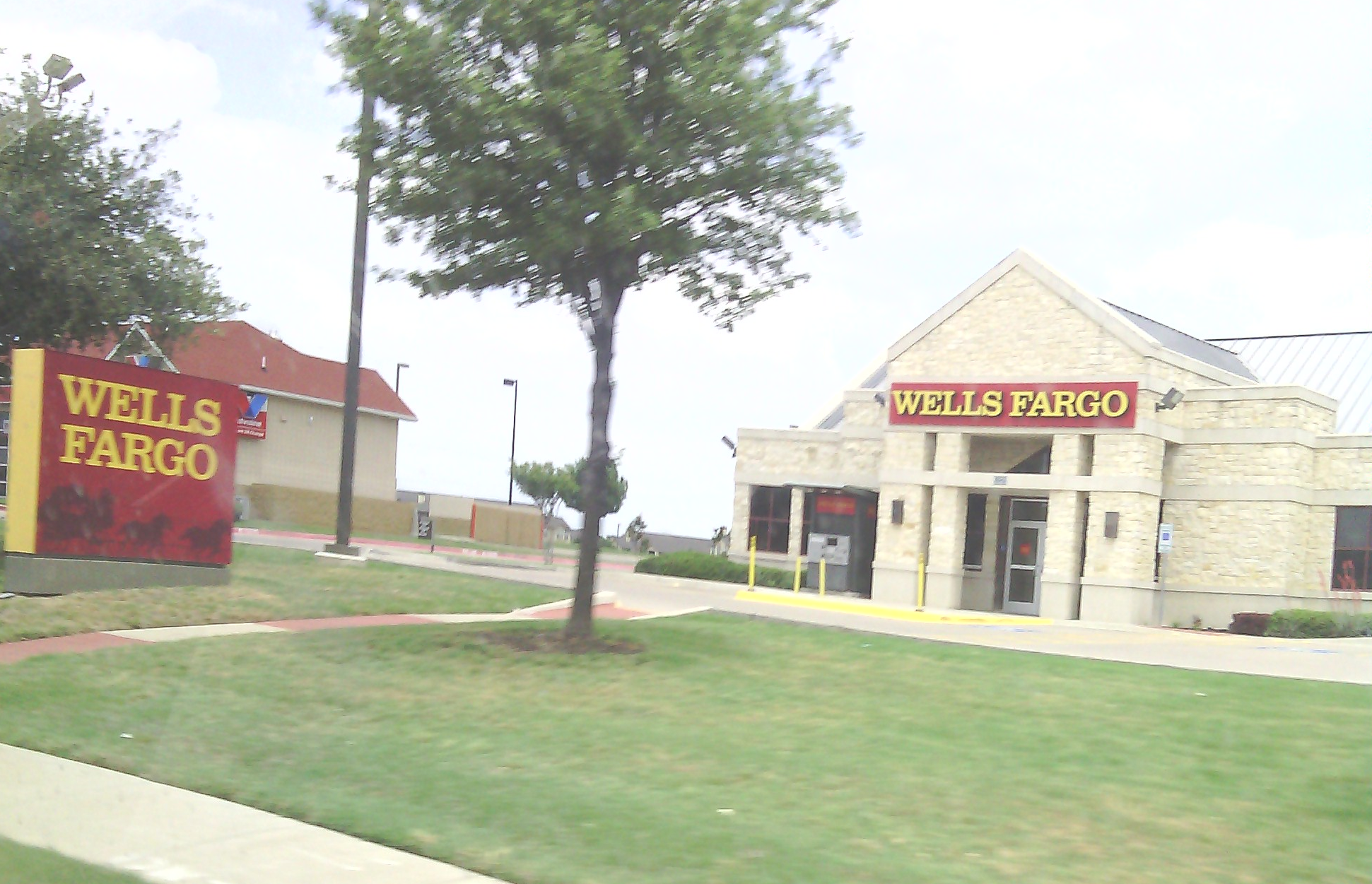 A recently remodeled Wells Fargo in Fort Worth. Taken with a ZTE N9120 (Android).